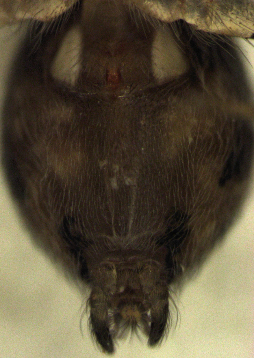 ventral side of abdomen of female Oecobius navus